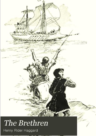 Book image; brothers chase ship.